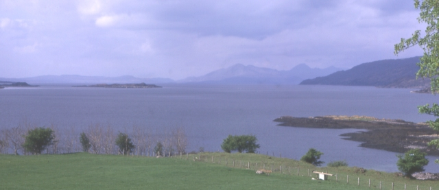 Loch Kishorn Looking south-west from near Sanachan. The small island at left of centre is Kishorn Island, and in the background is the Isle of Skye.